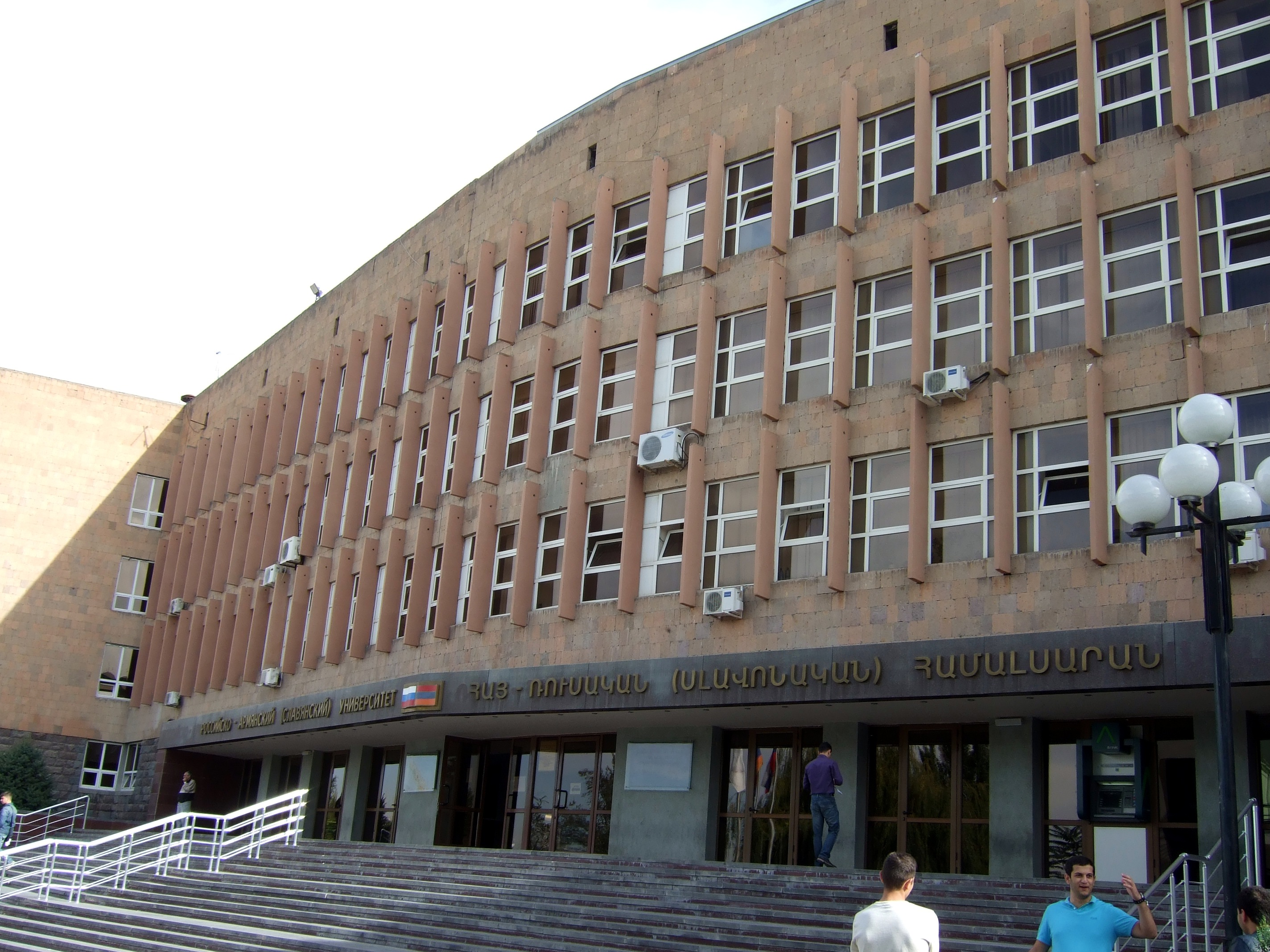 Russian-Armenian (Slavonic) University, Yerevan